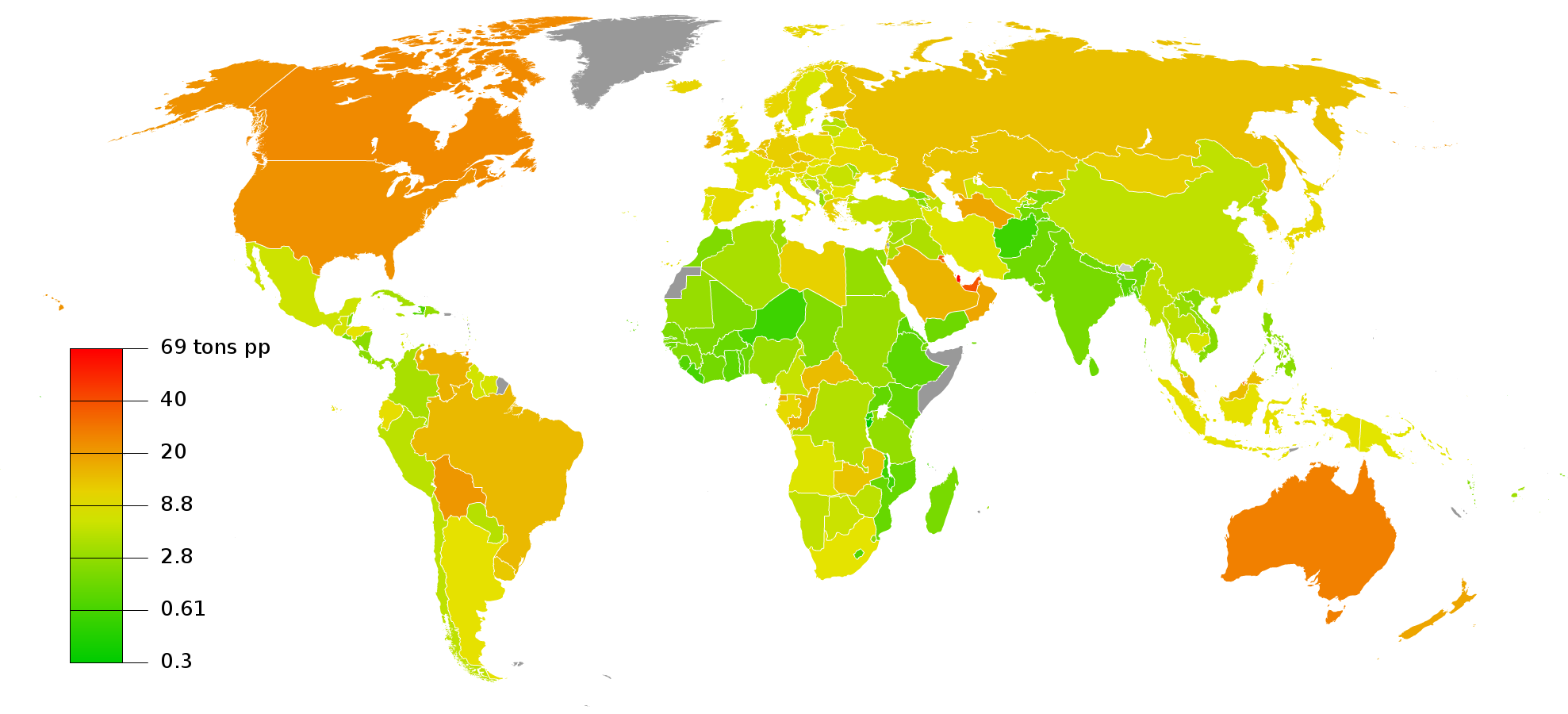 GHG emission per capita in metric tons per person for each country in 2005. Data is from the CAIT 8.0 dataset. CO2 equivalent emissions from land use change and emissions of CO2,CH4,N2O,PFC,HFC, and SF6 are included. Bunker fuel (aka ships) is not.